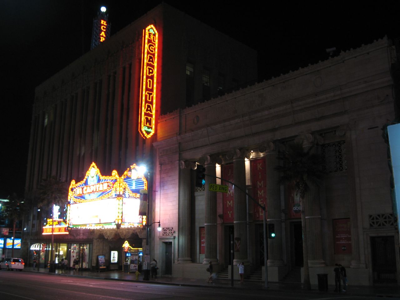 El Capitan Theatre is a fully restored movie palace at 6838 Hollywood Boulevard in Hollywood. The theater and adjacent building is owned and operated by The Walt Disney Company and as such, serves as the venue for many of the The Walt Disney Studios' film premieres. This building is now home to Jimmy Kimmel Live!.